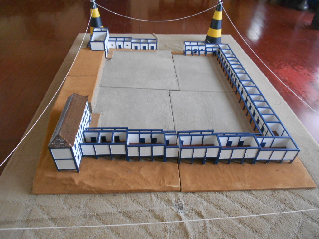 Scale model of a "senzala" (ancient house of slaves) at Fazenda do Ciclo do Café, Barra do Piraí, Rio de Janeiro, Brazil.